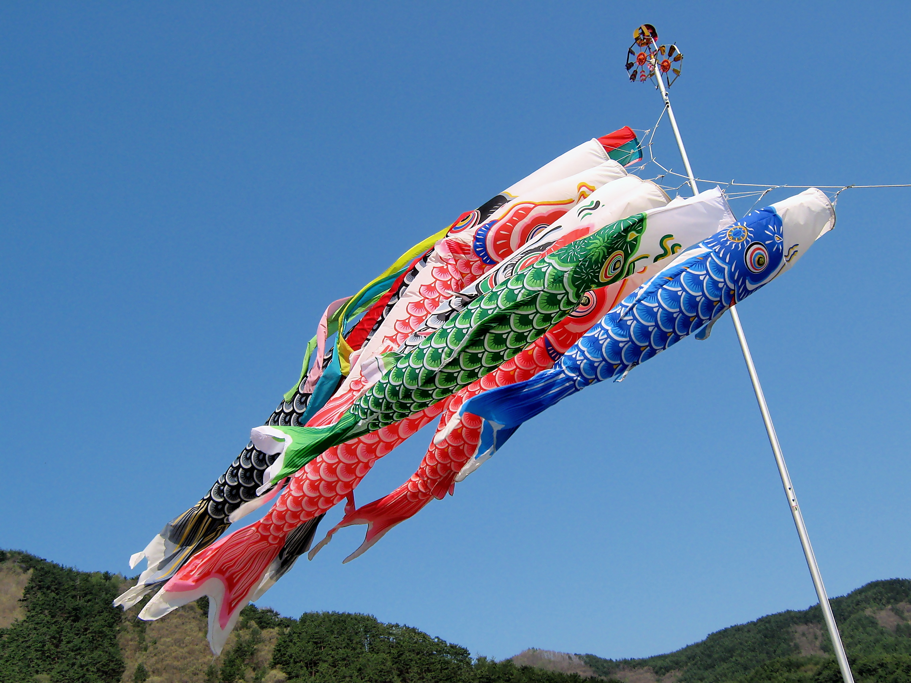 In Apr/May 2009, I took 15 days to walk all the way from Tokyo to Kyoto, roughly following the 546km long, ancient highway, the Nakasendo, alone. This picture was taken on day 6 of that long solo walk. Read about my preparations and my time in Japan at .